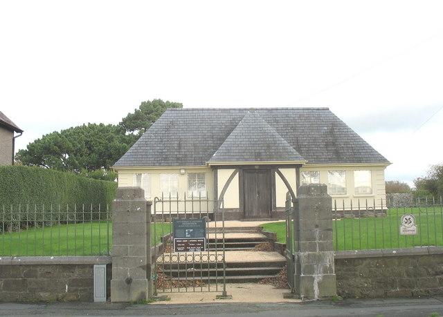 The Segontium Museum Building